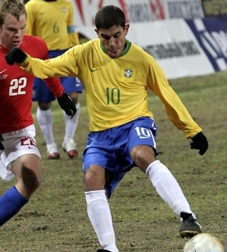 Ricardinho in action for Brazil national football team